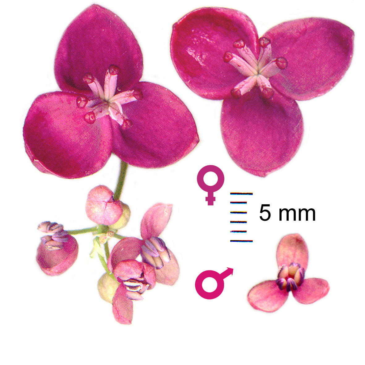 Akebia quinata female and male flowers